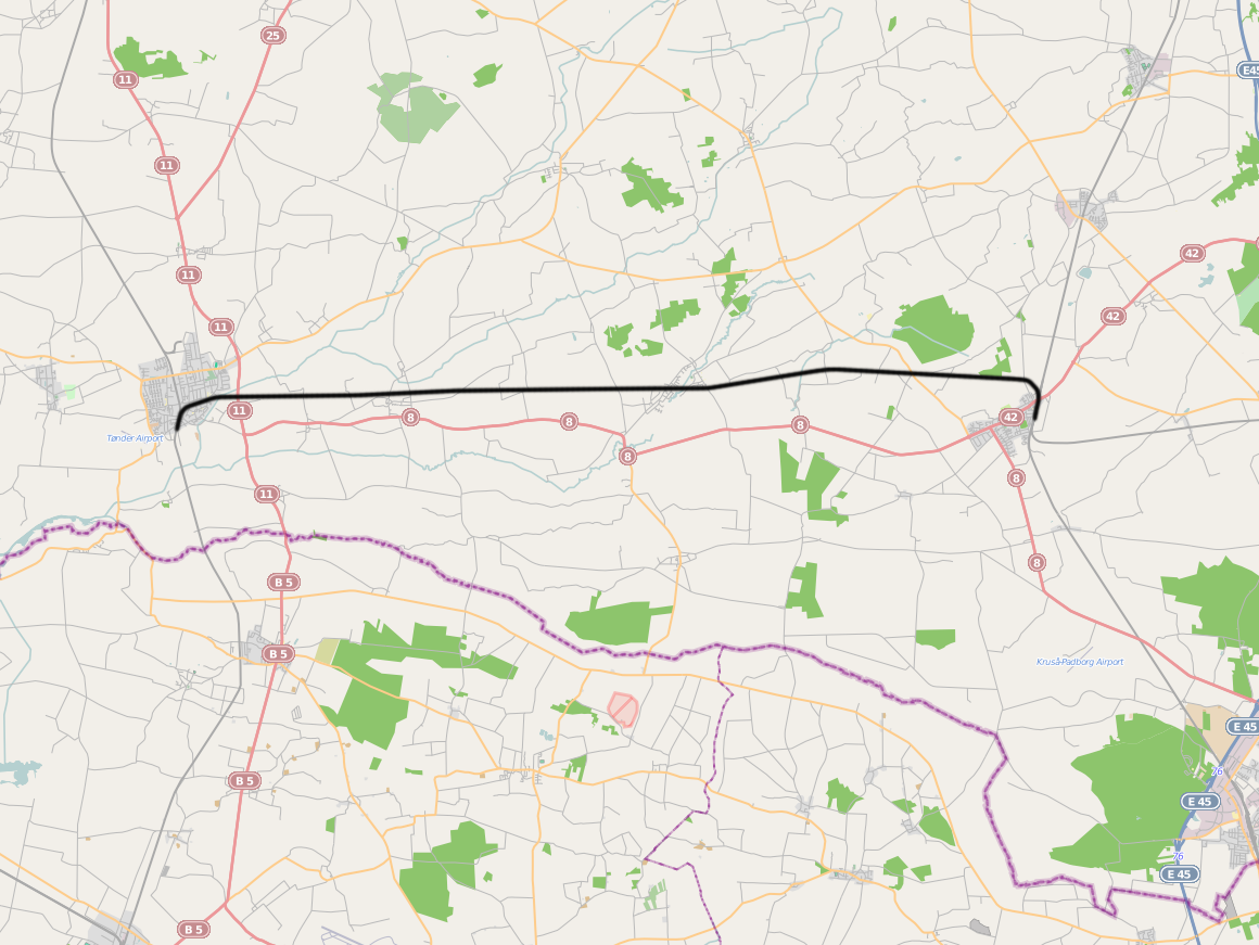 Railway line Tønder - Tinglev This map may be incomplete, and may contain errors. Don't rely solely on it for navigation.